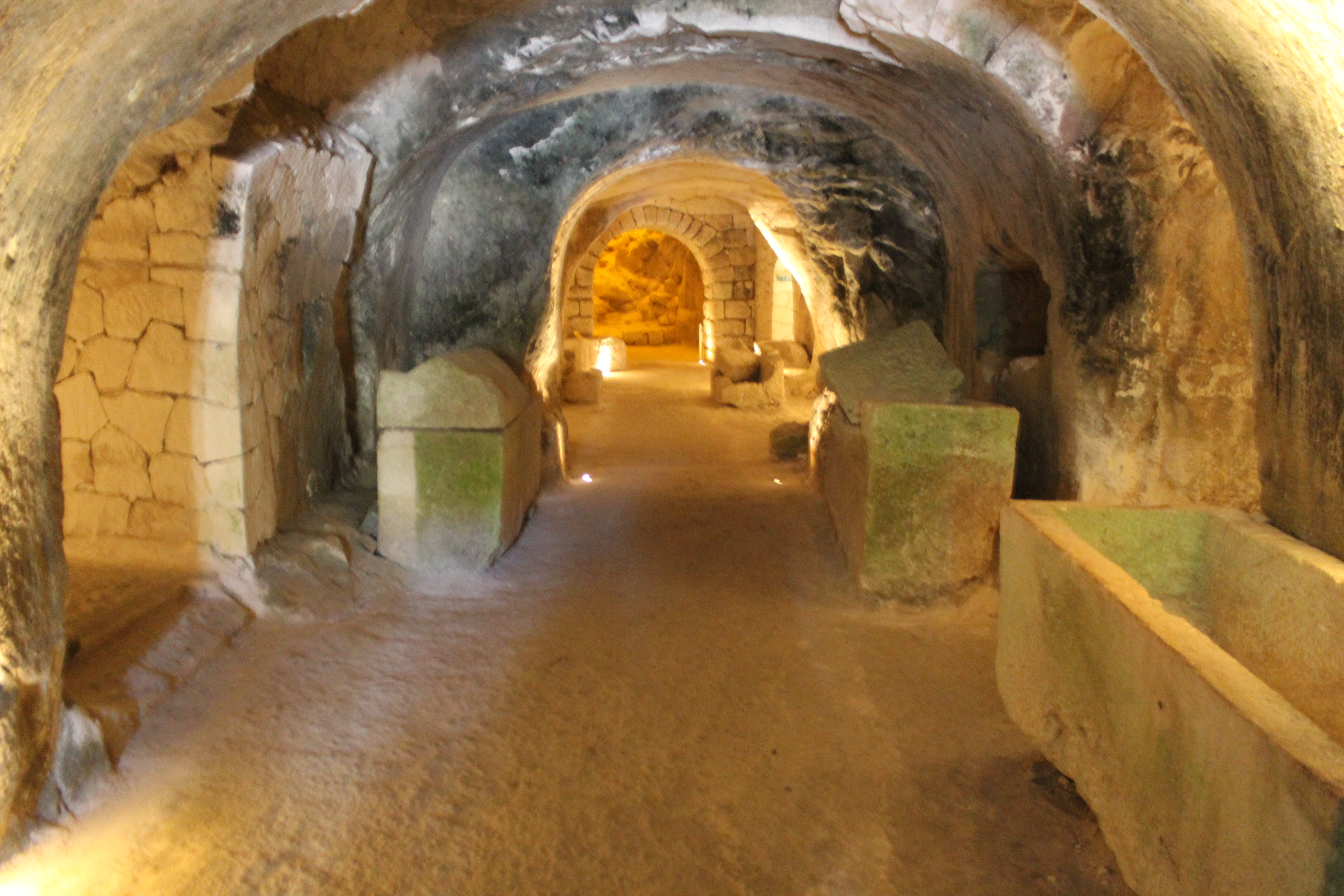 Necropolis at Beit Shearim, Catacomb no. 20